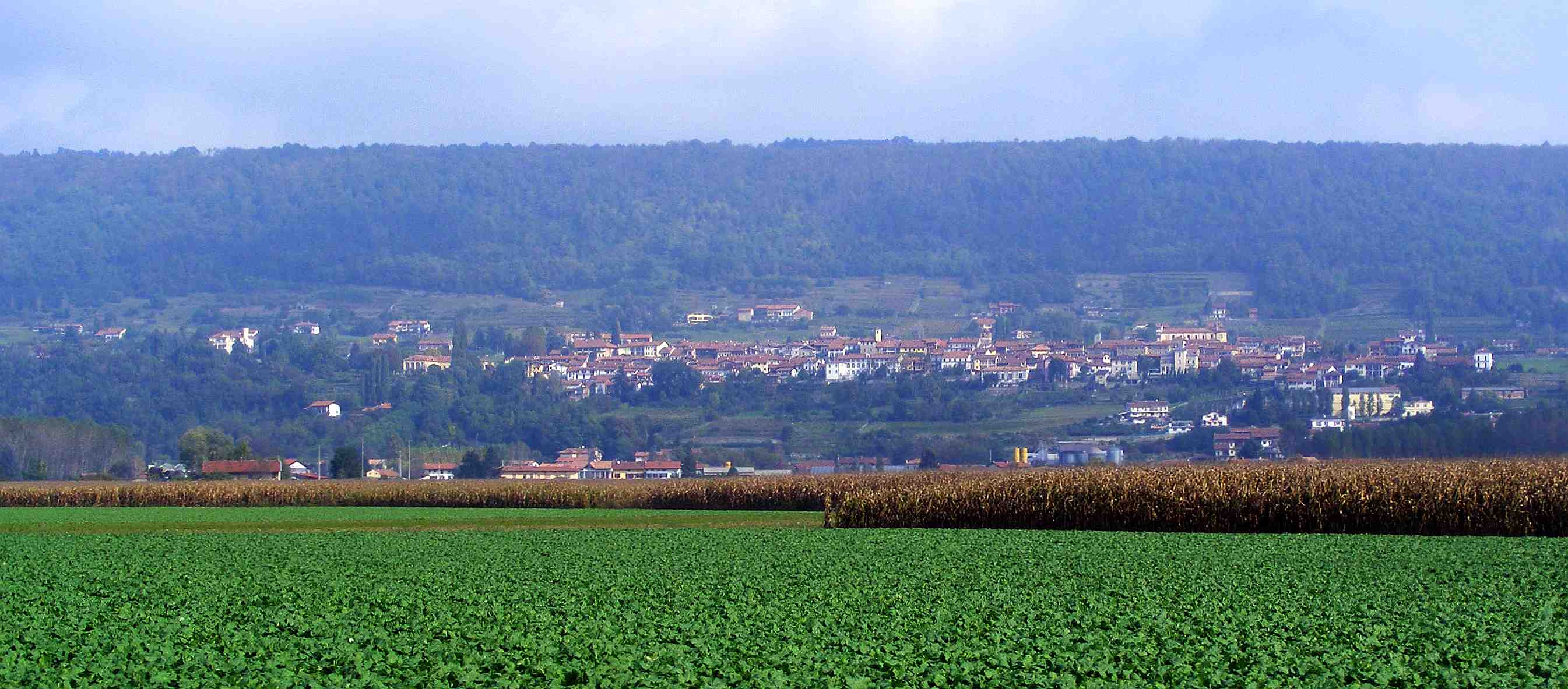 Piverone (TO, Italy): panorama; in the background the Serra d'Ivrea moraine